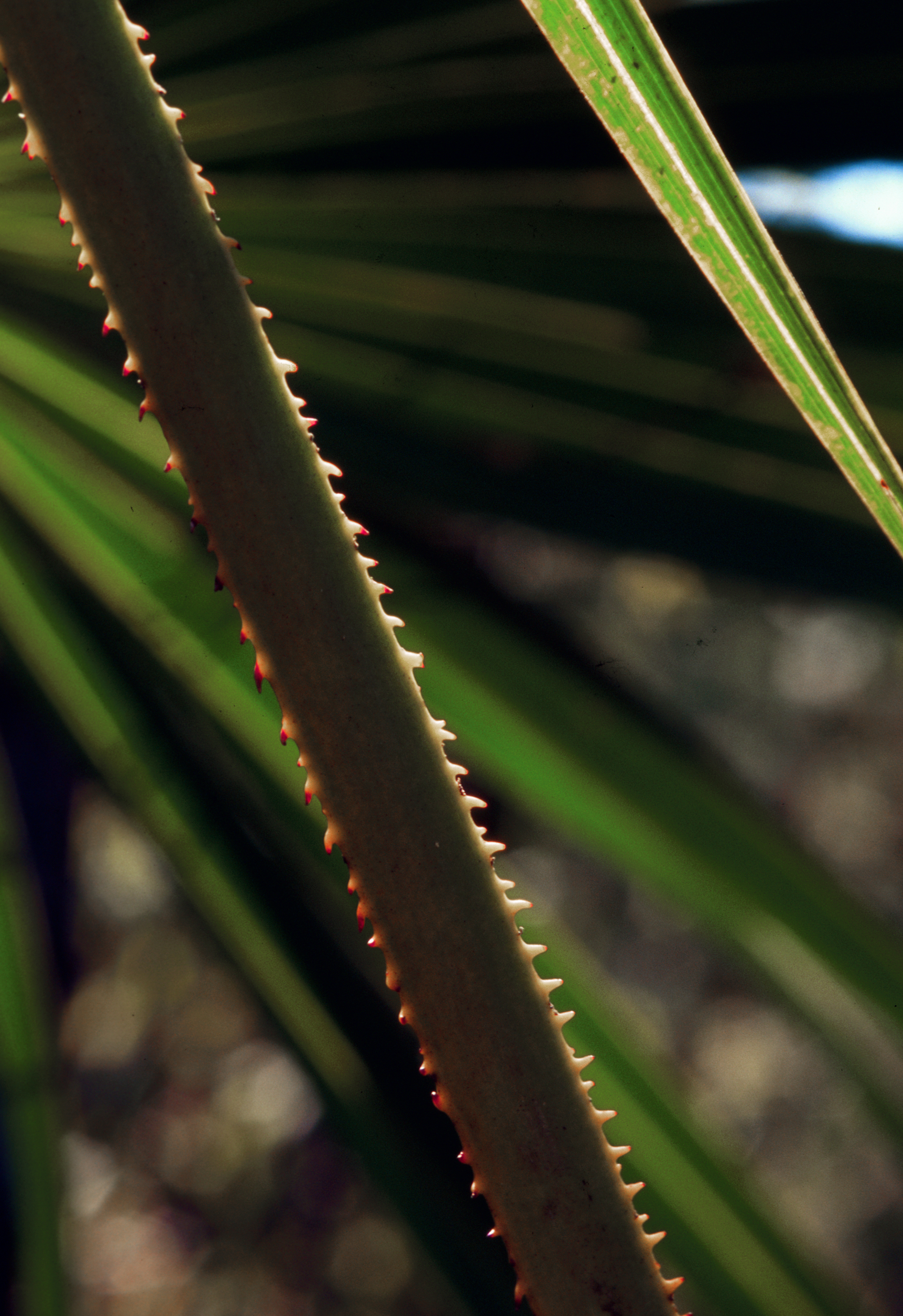 Serenoa repens leaf petiole showing saw teeth. Photo from Forest Plants of the Southeast and Their Wildlife Uses by J.H. Miller and K.V. Miller, published by The University of Georgia Press in cooperation with the Southern Weed Science Society.